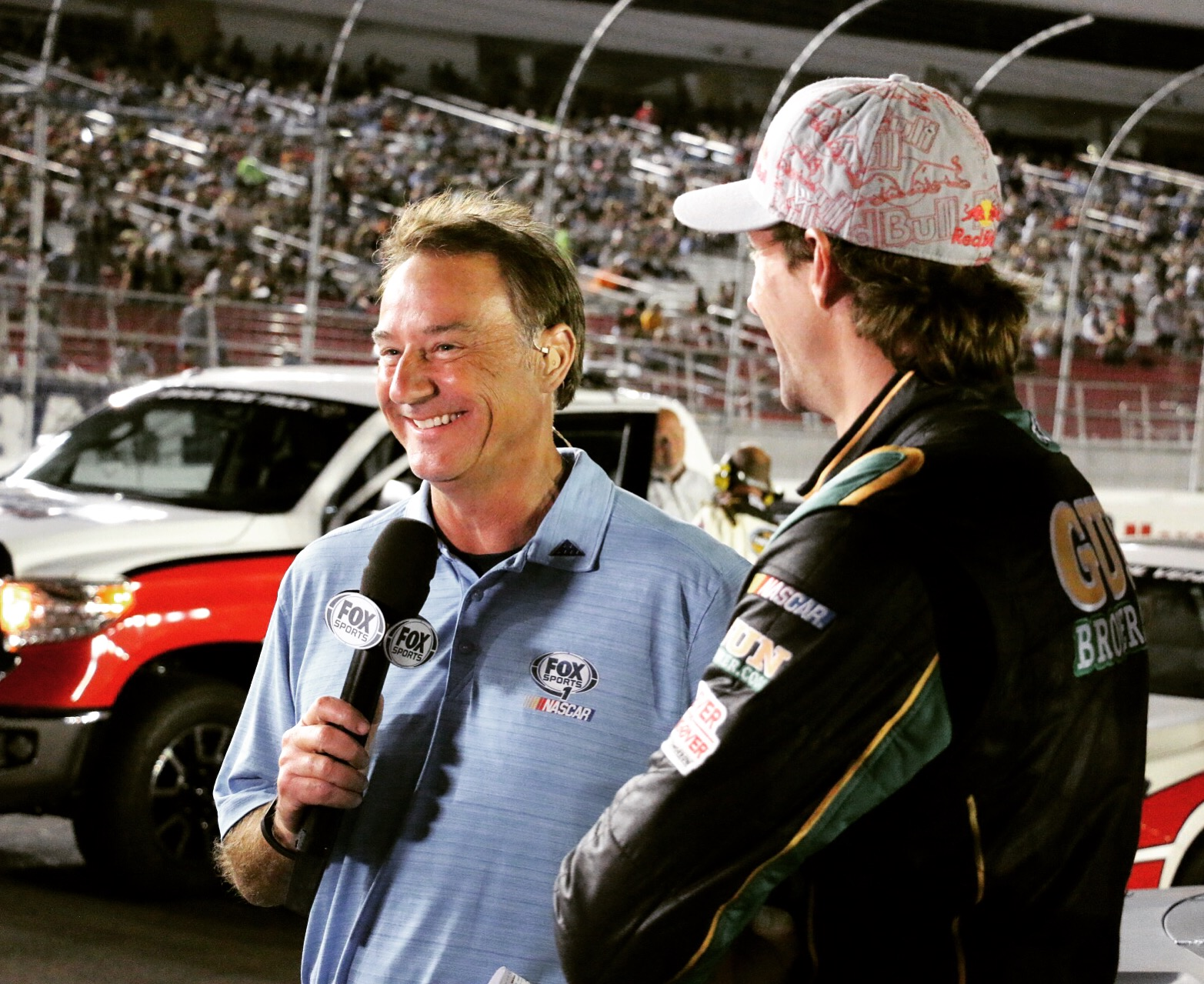 Vince Welch at Las Vegas Motor Speedway - October 2015